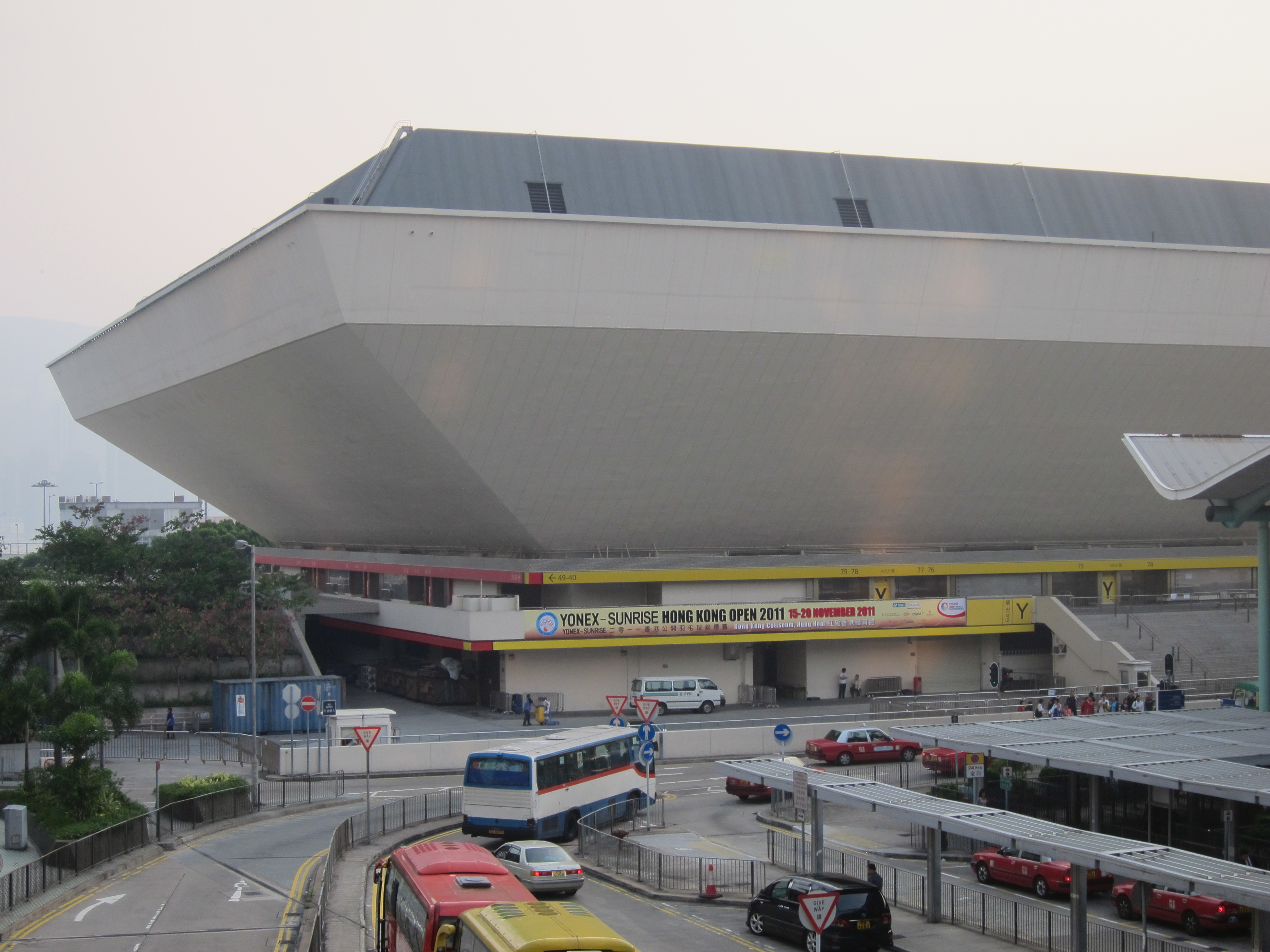 The Venue of Hong Kong Open Badminton Championships 2011 - Hong Kong Coliseum 中文（香港）: 2011年香港公開羽毛球錦標賽主場館 - 香港體育館